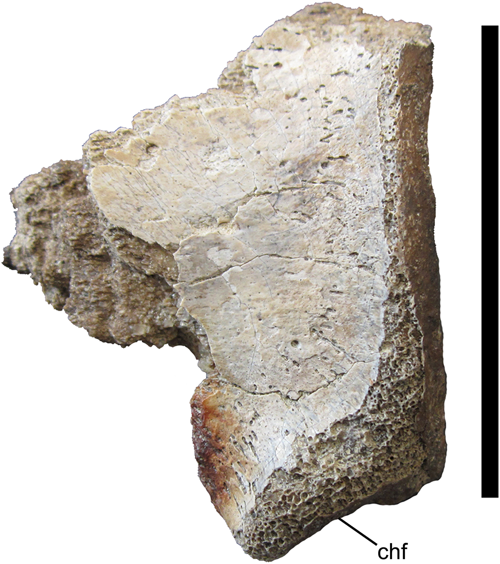 Part of the holotype of Dynamoterror dynastes McDonald et al. 2018 (UMNH VP 28348): Incomplete middle caudal centrum in left lateral view. Abbreviations: chf, chevron facet. Scale bar equals five cm.